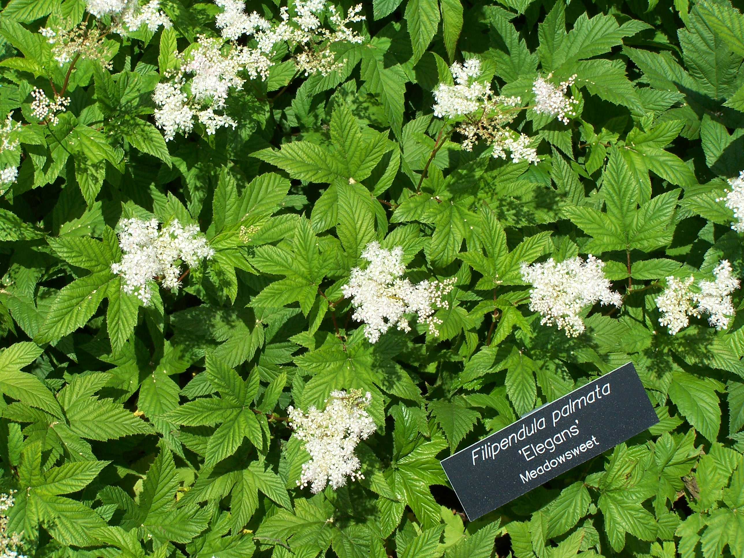 Filipendula × purpurea 'Elegans' Meadowsweet at Minnesota Landscape Arboretum